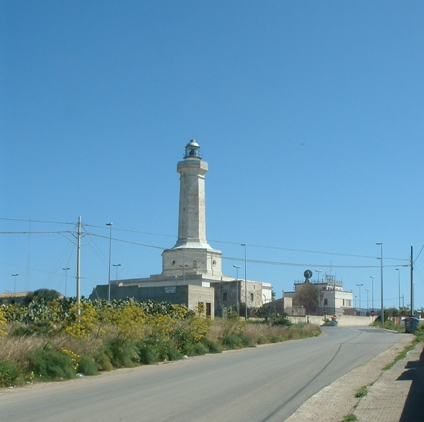 Portopalo di Capo Passero (SR), Cozzo Spadaro lighthouse and weather station.